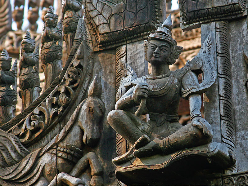 The Shwenandaw monastery is the most significant of Mandalay’s historic buildings, since this ‘Golden Palace Monastery’ remains the sole major survivor of the former wooden Royal Palace built by King Mindon in the mid-nineteenth century. Originally part of the royal palace at Amarapura, it was moved to Mandalay, and, with the name Mya Nan San Kyaw, became the northern section of the Glass Palace and part of the king’s royal apartments. King Mindon died in this structure in 1878, and his son and successor, King Thibaw, often went there to meditate. He soon became convinced, however, that Mindon’s spirit was haunting the building, and in 1878 he ordered it dismantled and removed from the Royal City. Over the next five years it was reconstructed as a monastery--and dedicated as a work of merit to the memory of King Mindon--on a plot adjoining the Atumashi Monastery near the northeast corner of the Royal City. The rest of the old Royal Palace within the old Royal City (now Mandalay Fort) burned during the latter stages of the Second World War as a result of allied bombing of the Japanese ensconced in the old Royal Palace. King Thibow’s superstition thus had preserved a significant remnant of the Royal Palace. Beautiful carving remains on the building, which is made of teak wood.